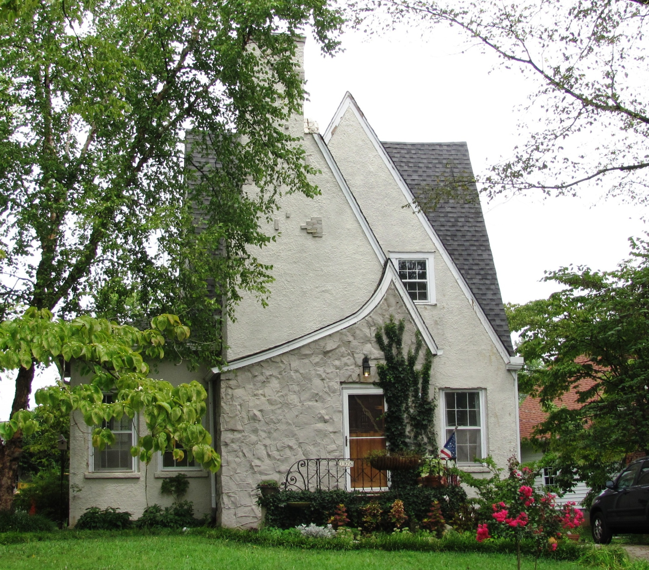 House at 1928 North Hills Boulevard in Knoxville, Tennessee, USA. Built circa 1930 in the English Cottage Revival style, this house is now a contributing property within the NRHP-listed North Hills Historic District.